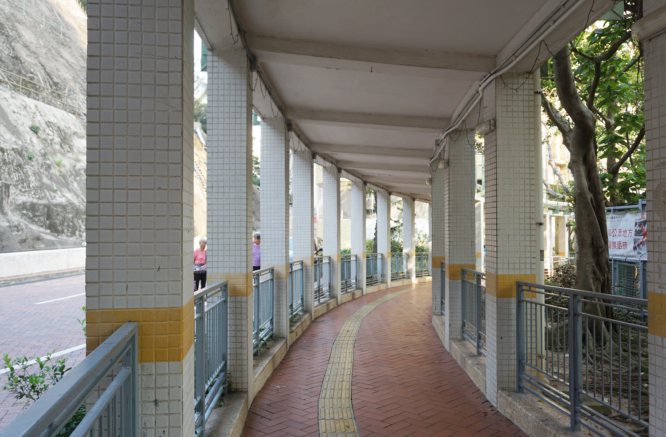 Wan Hon Estate in Kwun Tong, Hong Kong.